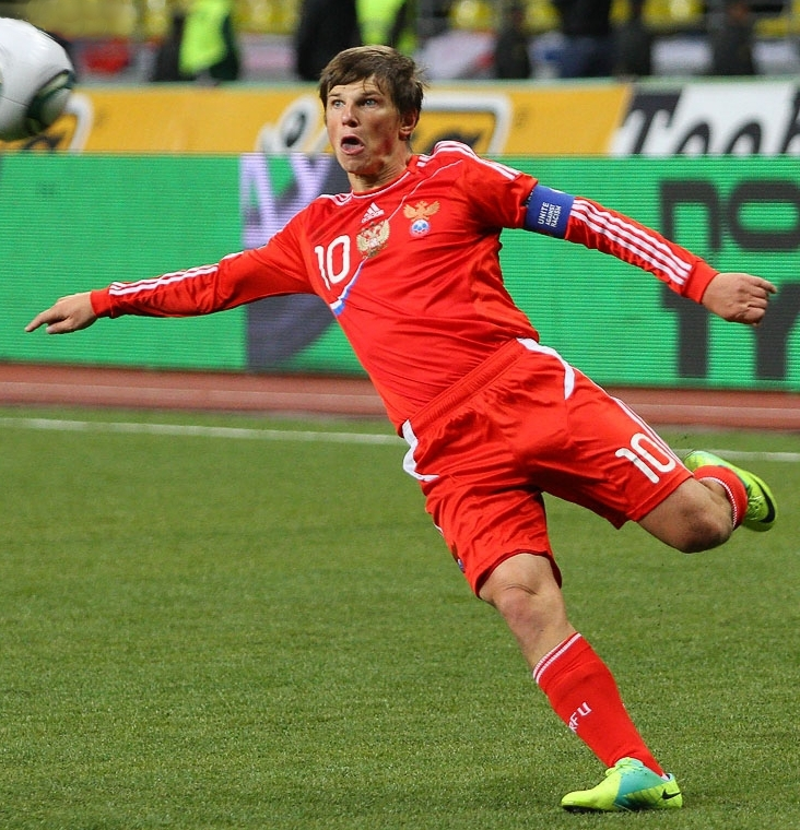 Russian football player Andrei Arshavin during match against Andorra